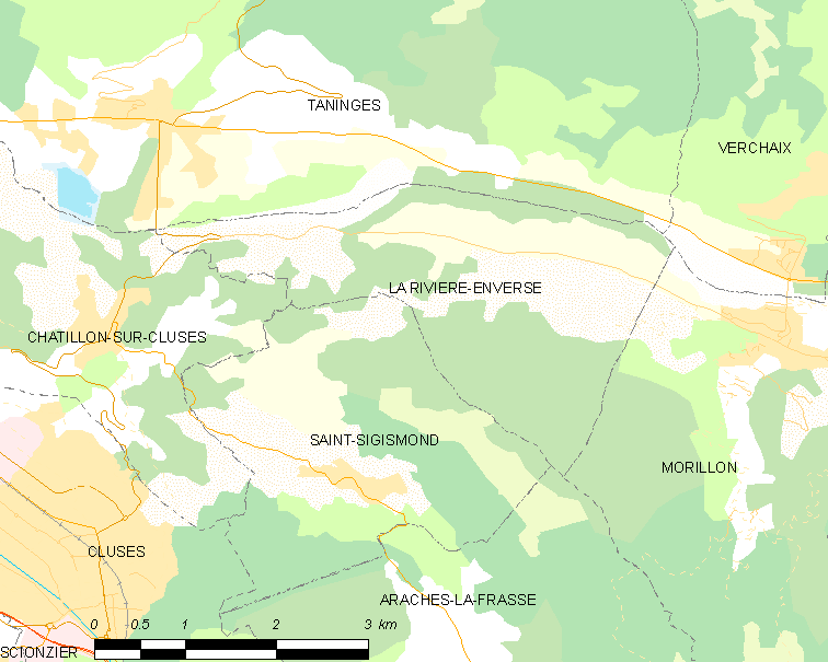 Map of French municipality La Rivière-Enverse